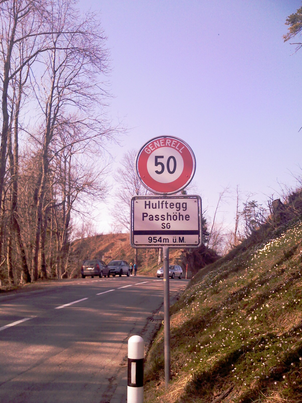 Pass heigt of Hulfteggpass, cantons St. Gallen and Zürich, SwitzerlandEsperanto: Pasejkulmino de Hulfteggpasejo, kantonoj Sankt-Galo kaj Zuriko, Svislando